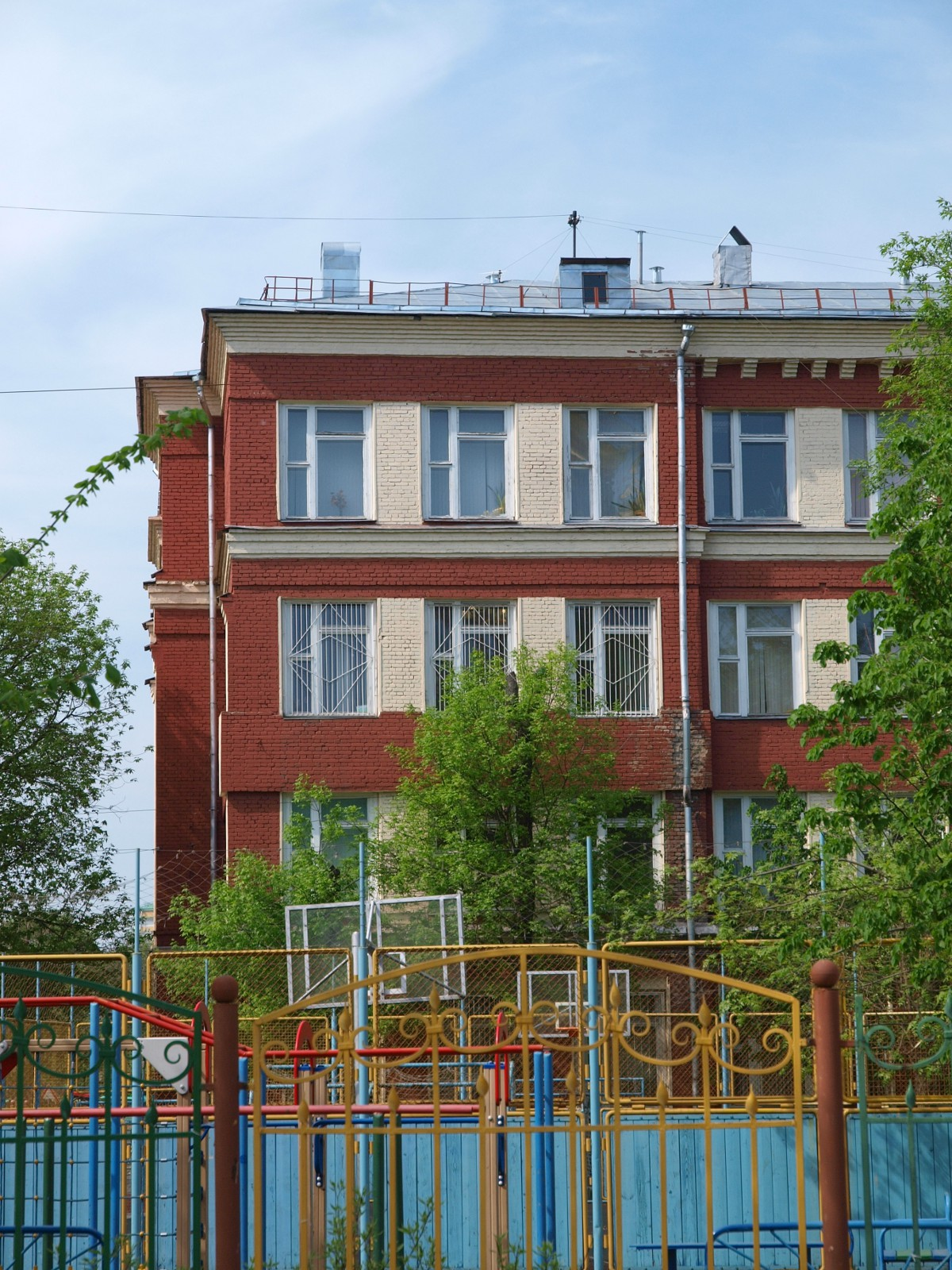 School in old Kadashi, Moscow, lists Andrey Makarevich among its alumni.